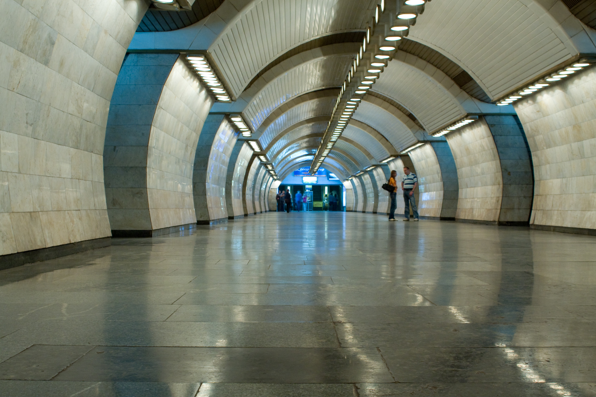 Pecherska Station of Kiev Subway